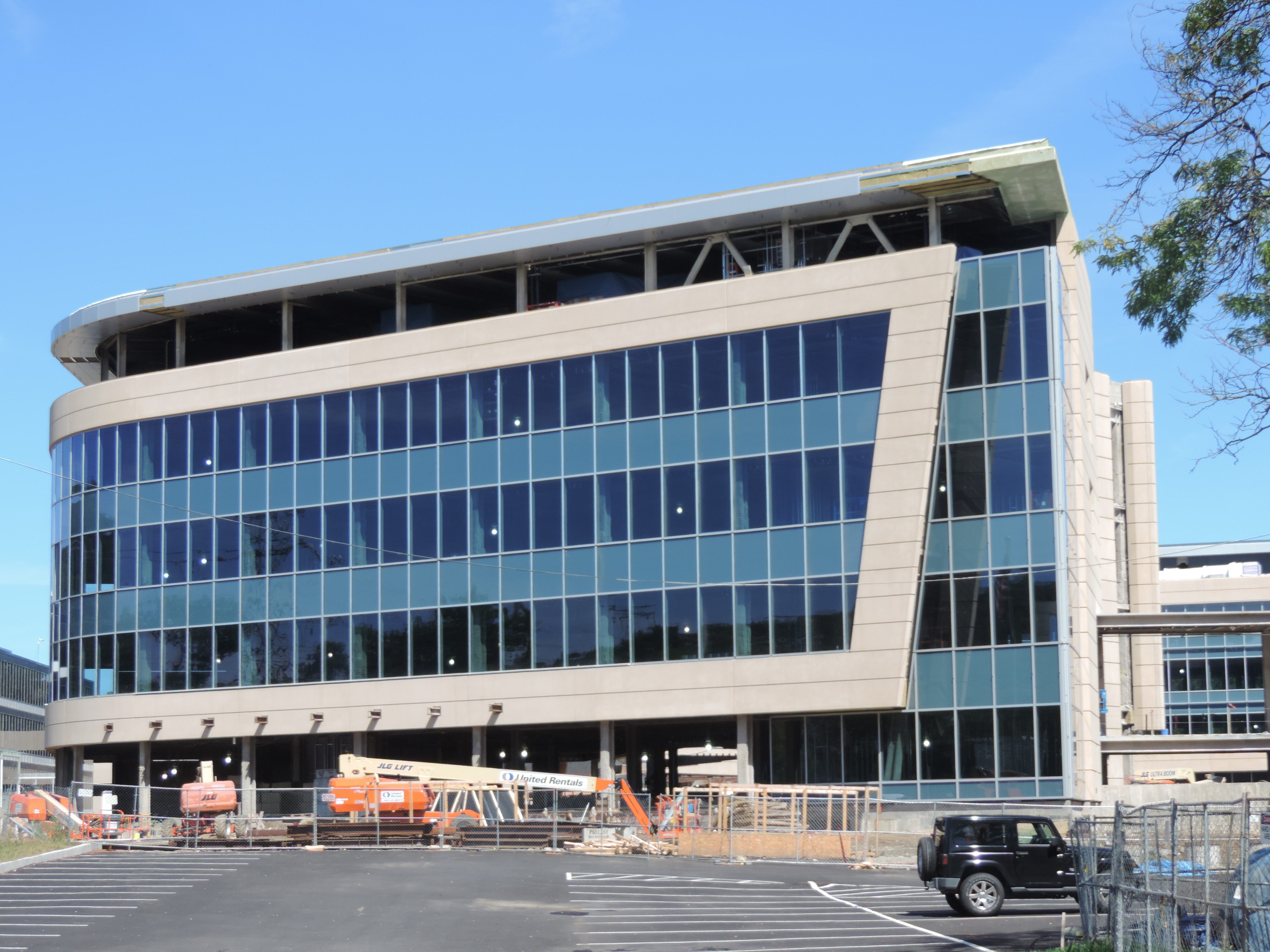 Looking north at office building nearing completion on a sunny afternoon.